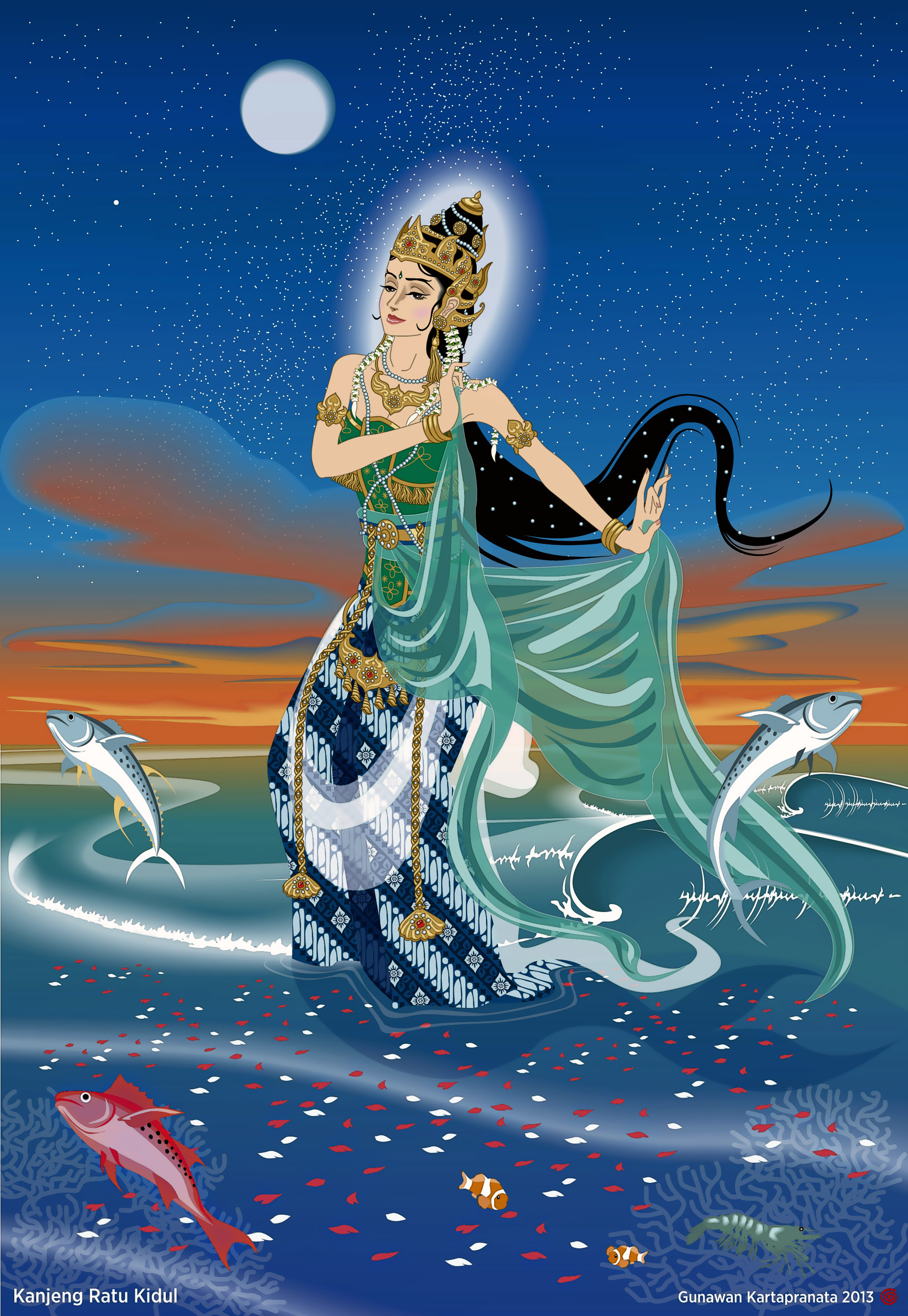 An artwork depicting Kanjeng Ratu Kidul by Gunawan Kartapranata. Kanjeng Ratu Kidul, the Queen of the Southern Sea of Java (Indian Ocean or Samudra Kidul south of Java island). According to traditional Javanese and Sundanese beliefs, she is the female deity (spirit) that reigning the creatures of the southern seas of Java. She is revered in places (beaches) such as Palabuhan Ratu, Pangandaran, Parang Kusumo and Parang Tritis. The deity is revered in both Javanese Mataram and Sundanese traditions. According to Javanese beliefs, Panembahan Senopati, the founder of Mataram Sultanate met her during his ascetism practice in Parang Kusumo beach. The deity queen of Southern sea agreed to help Panembahan Senopati, thus she become the mythical spiritual bride (consort) of series of Mataram Kings to Yogyakarta and Surakarta kingdoms.